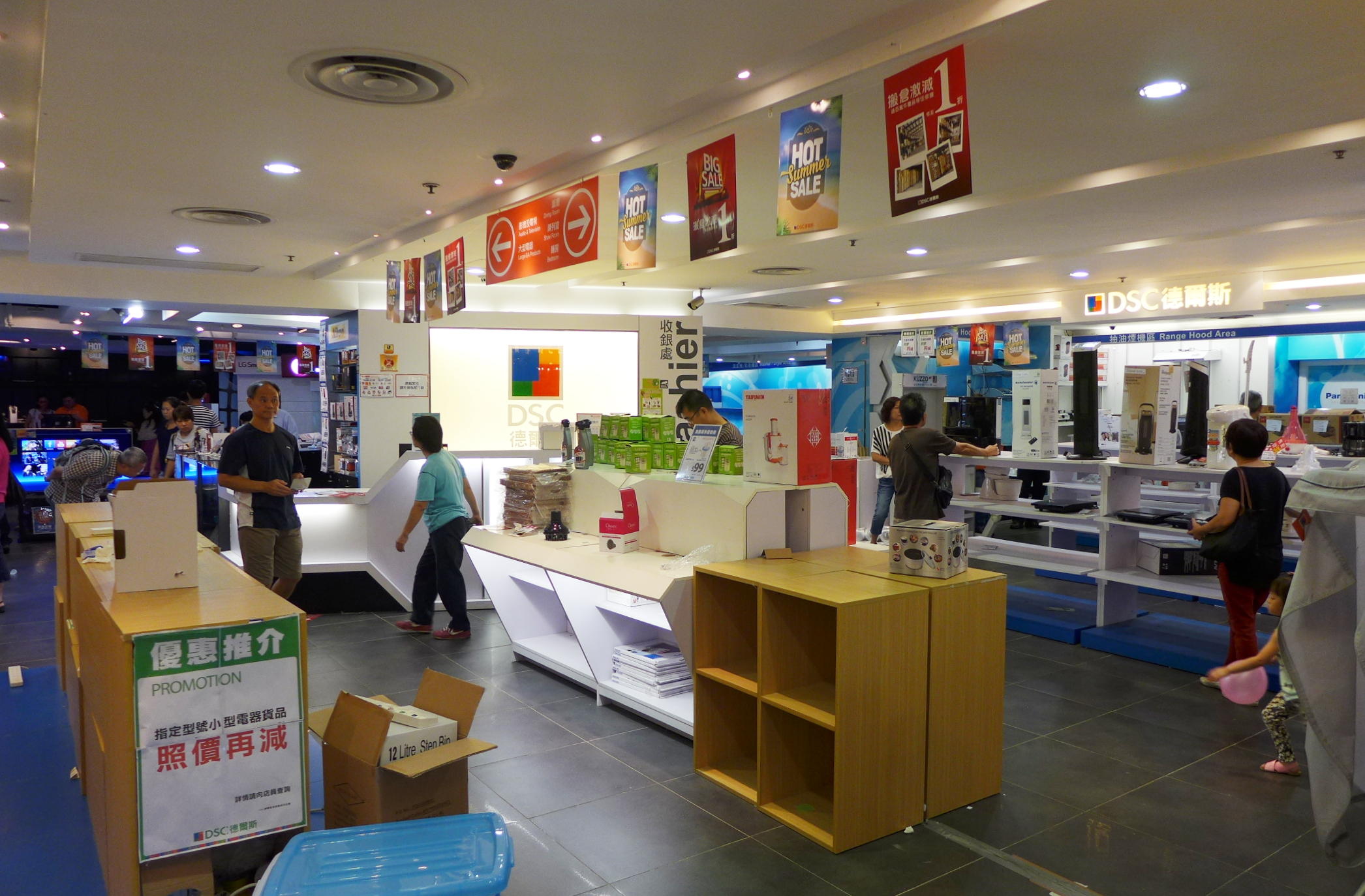 DSC Shatin store